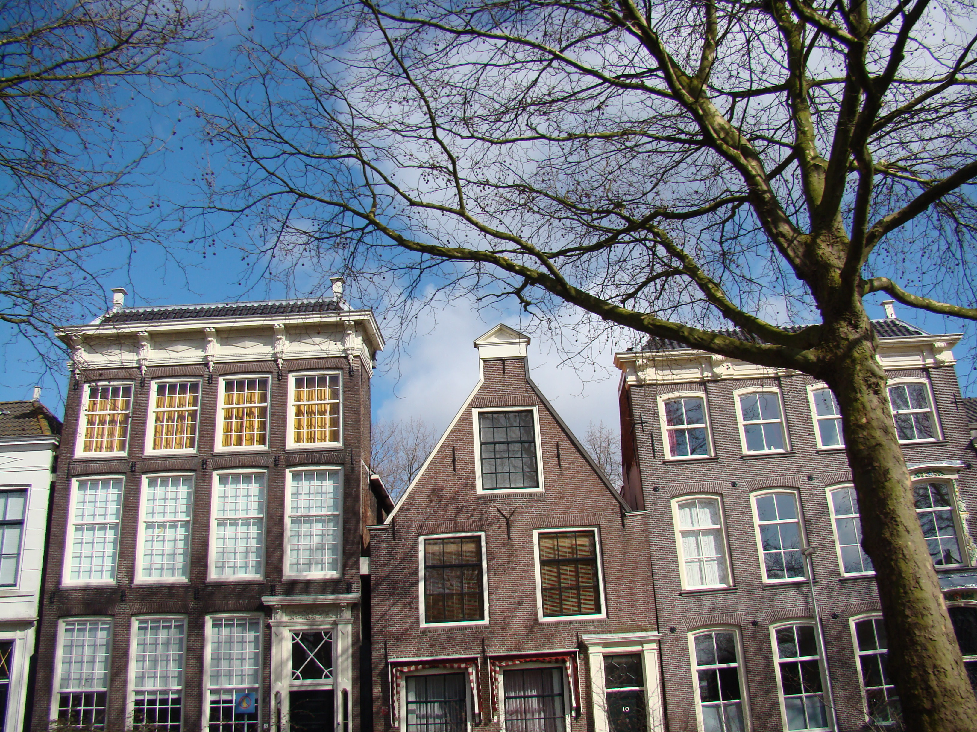 Bierkade 9, 10 en 11, Purmerend, Netherlands